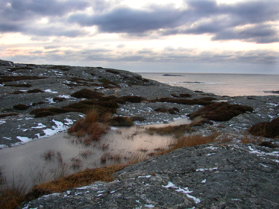 Strong and icy winds this day. Bua is a small village on the westcoast in Sweden where I spent this last week at my friends place. No snow really and just below zero but wow how cold the wind was blowing. But we are wikings arn´t we and we can stand this so easily! :-) One of the best things in life is to come in from the cold, to the warmth of a cosy home and have some cheese-smörgåsar (cheesesandwiches) with hot chocolade, yummy!! Thats life people!